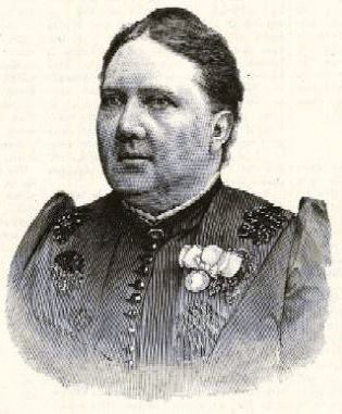 Sophie Hermansson (1836-1914), Swedish bedlam warden